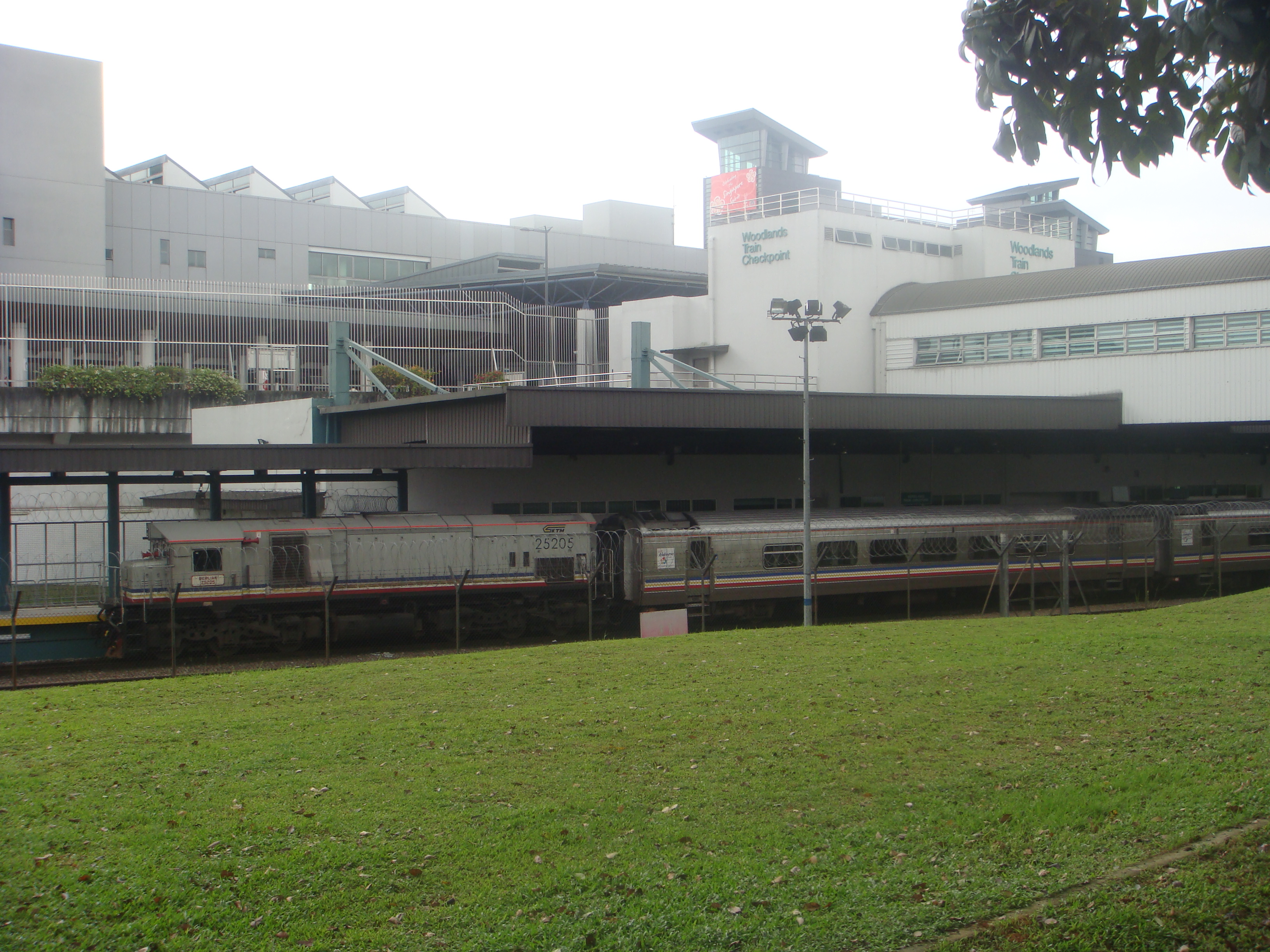 Ekspres Sinaran Pagi (train no. 5) at Woodlands Train Checkpoint (picture taken by uploader on 2 September 2008)